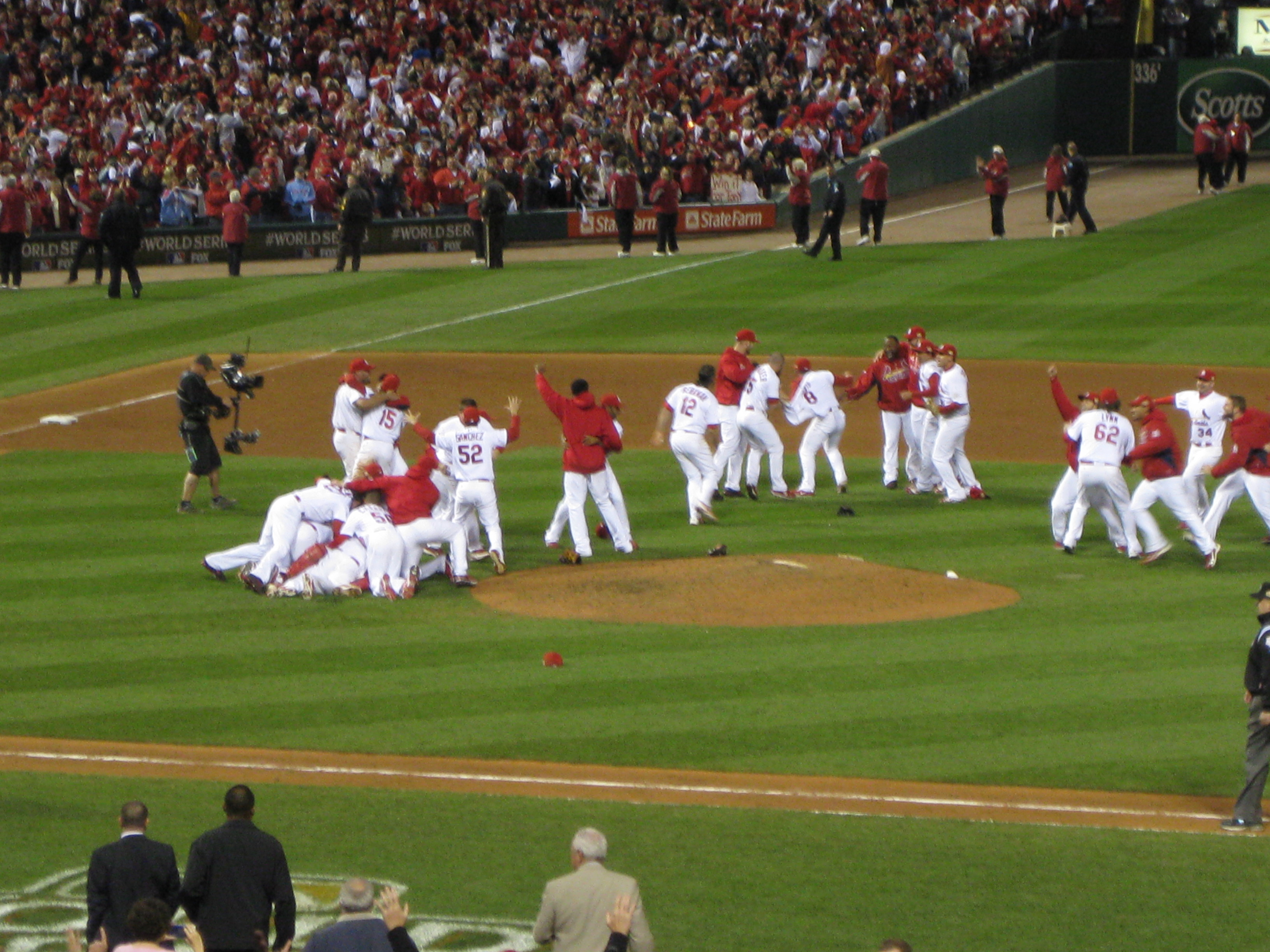 Cardinals players celebrate after the last out of the 2011 World Series.